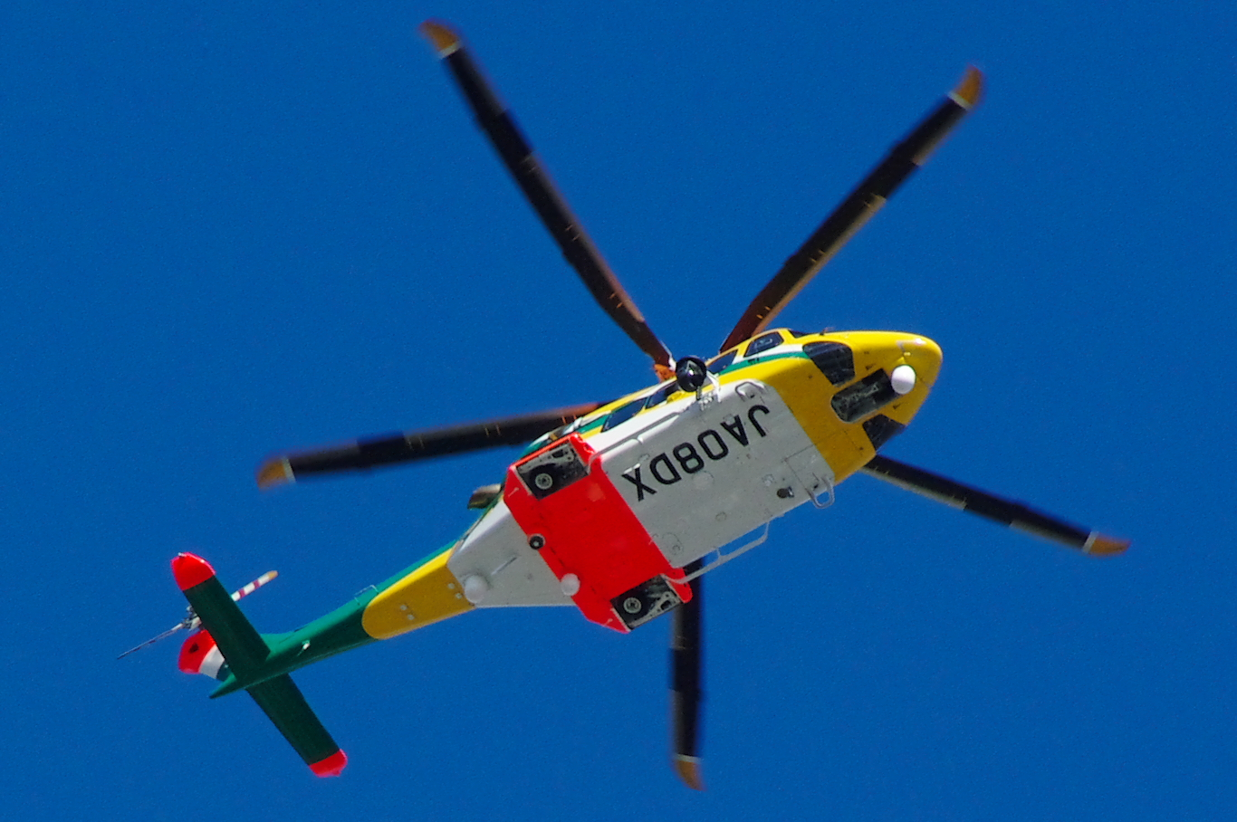 Photograph of the bottom of Kansai Telecasting Corporation's news-gathering helicopter (JA08DX, AgustaWestland AW139, opeareted by Aero Asahi Corporation), flying over Nagai Park, taken from the main stand of Nagai Stadium, Higashisumiyoshi-ku, Osaka, Osaka Prefecture, Japan.